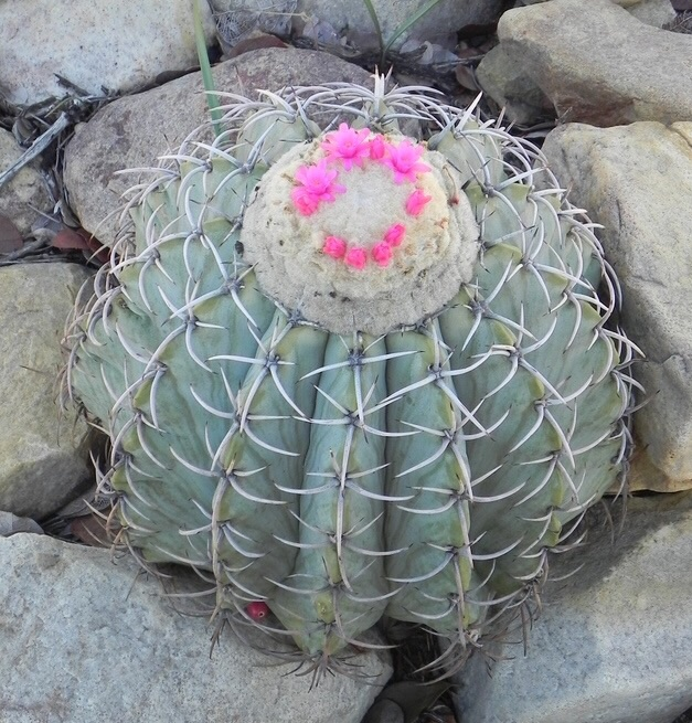 Bahia, Brasil